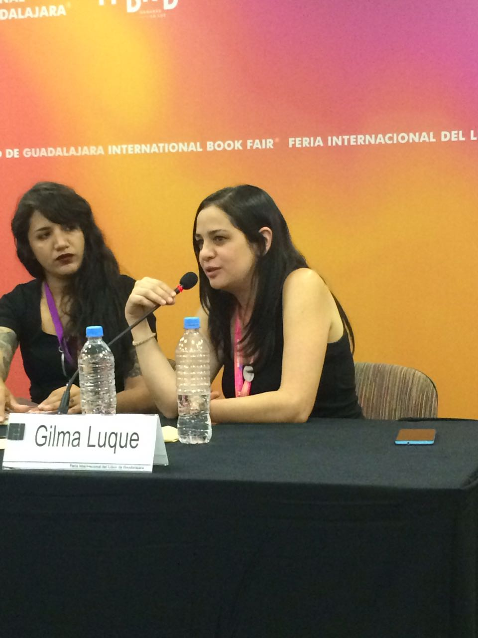 Gilma Luque en la Feria Internacional del Libro de Guadalajara (México)